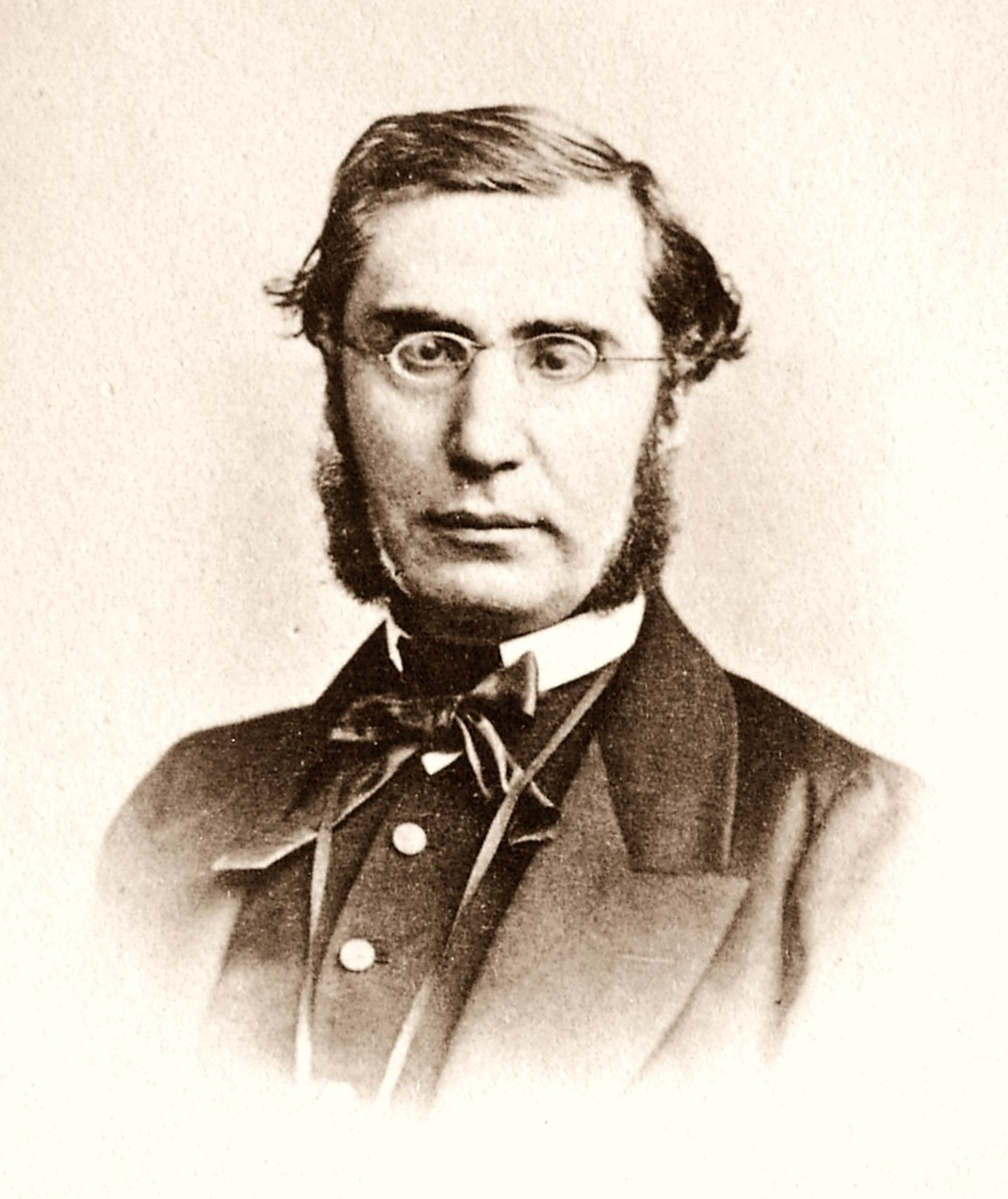 Emile Ollivier, Prime minister of France